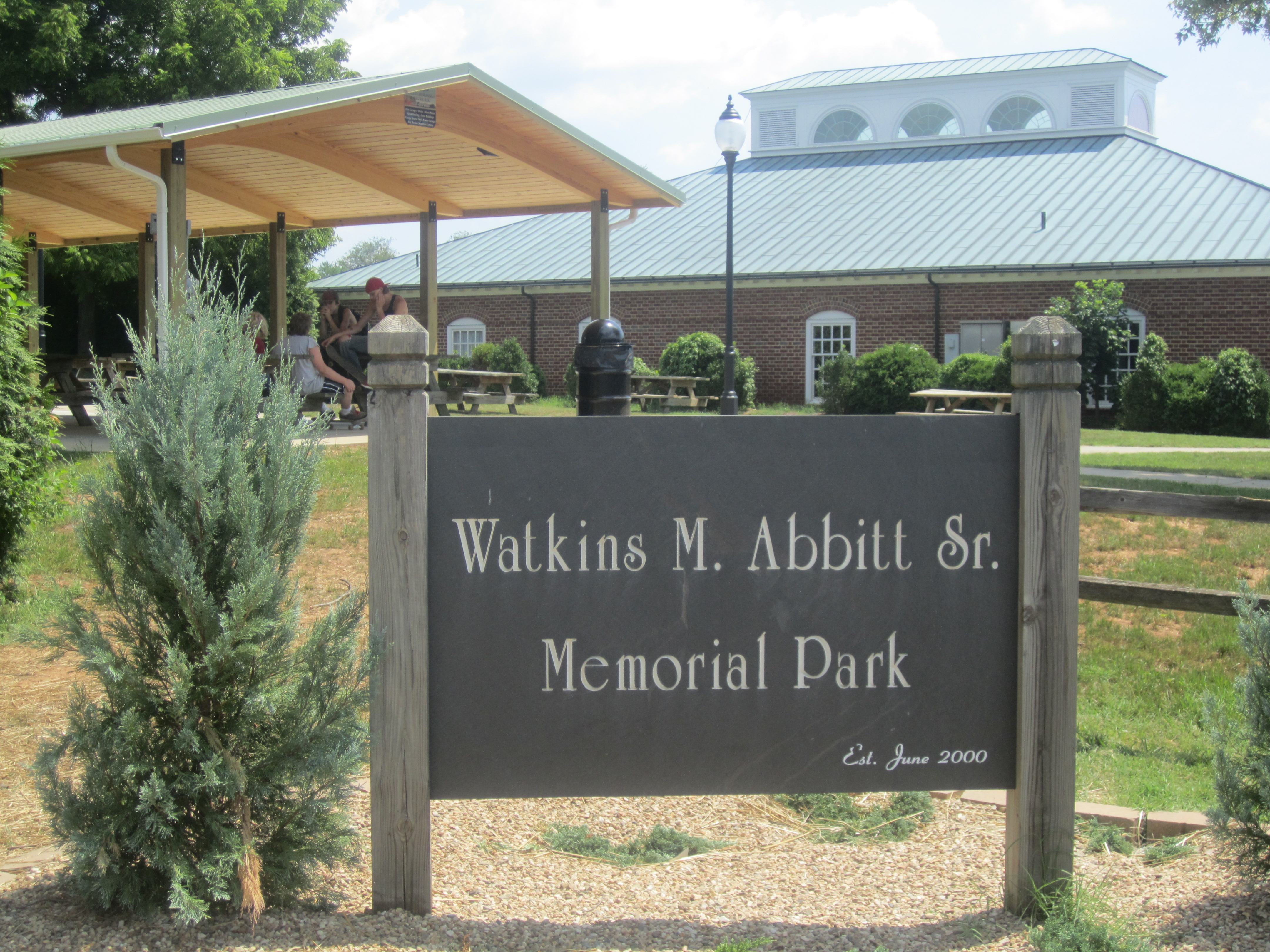 I took photo at Watkins M. Abbitt Memorial Park in Appomattox, VA, with Canon camera.